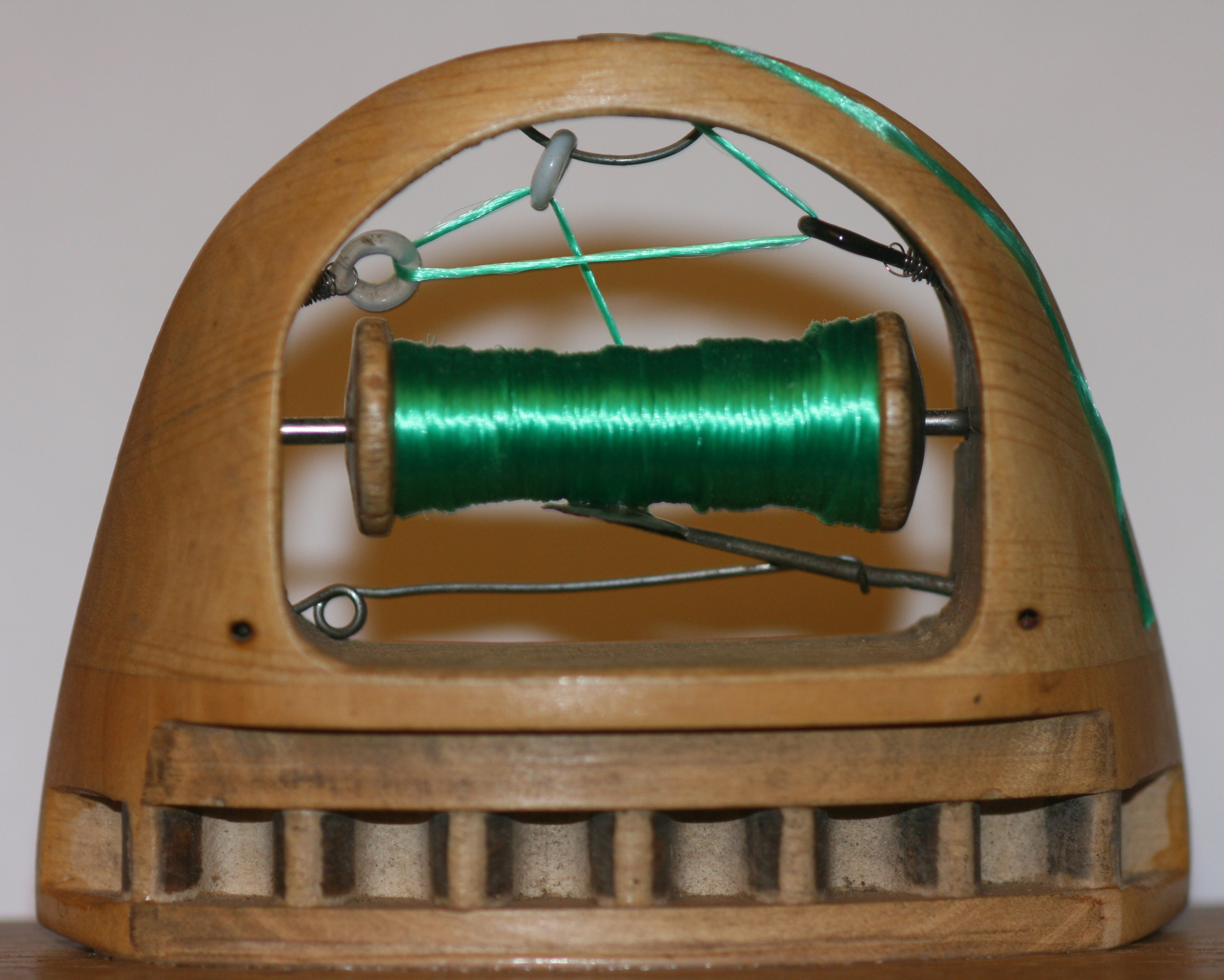 Shuttle of a weaving machine for ribbons from Großröhrsdorf (Saxony, Germany).